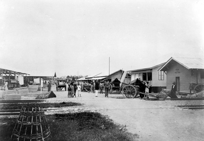 The beginning of the Gajo-road near the railwaystation in Bireuën, Aceh, North-Sumatra